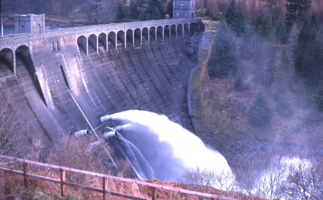 Laggan Dam. I've been trying for years to get a photo of the dam with water coming down the spillway as well as from the pipes, but it's always been either dark or raining!